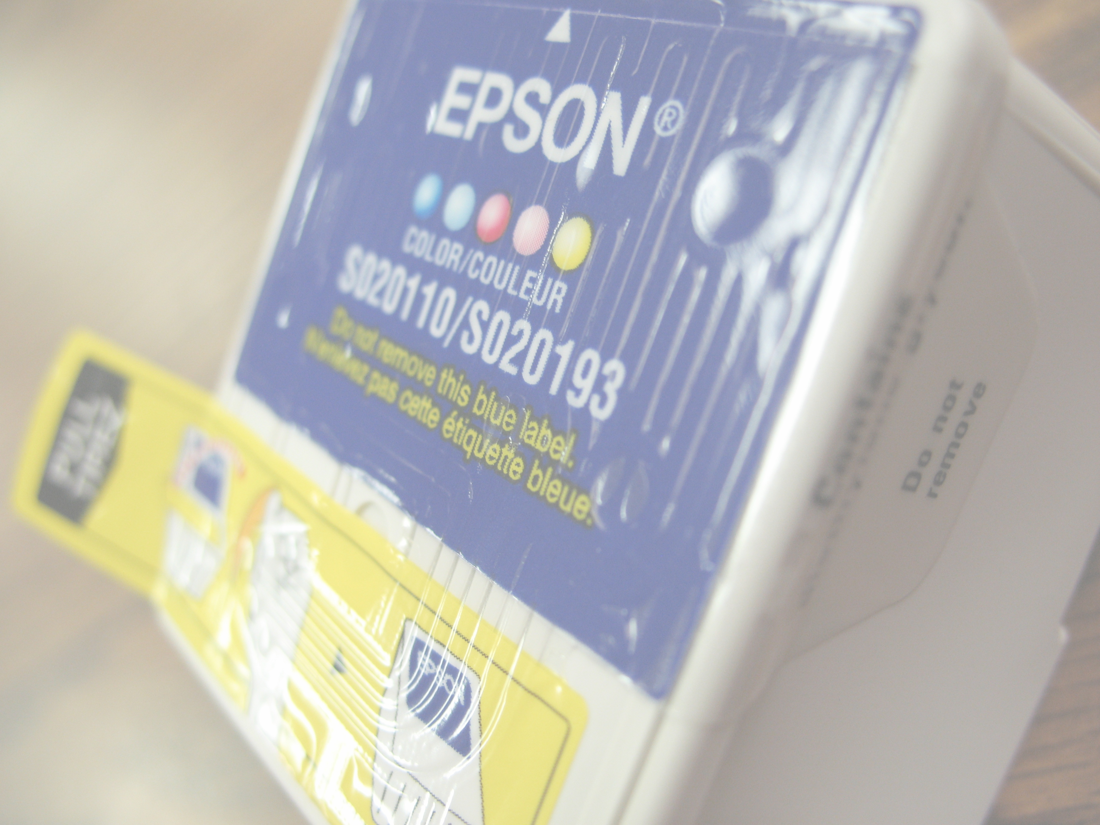 Example of inkjet printer air vent channels, on the top of an Epson ink tank. The channels are required to allow air to enter when ink is sprayed out by the printhead. The yellow strip is peeled off by the user before inserting the tank into the printer, and opens the ends of the channels to the atmosphere. If the yellow strip is not removed, the air pressure imbalance prevents the ink from spraying out the printheads. The channels are molded into the top of the plastic tank as a series of ridges and valleys, and the blue adhesive label seals across the all the ridges to make the valleys into long continuous tubes. These tubes allow air to seep into the cartridge while the length of the long tube helps to slow moisture evaporation out of the tank. However once the yellow strip is removed, the slowed evaporation begins and the cartridge will evetually dry out and fail. This drying could be stopped by reapplying tape where the yellow strip is located, but for this printer would require removing the tank from the printer, which Epson Stylus printers do not allow until the tank is completely empty. This tank has five separate ink compartments for more accurate color printing than just four colors can provide. During manufacture, the ink tank is filled through the two large holes in each tank compartment, and then the blue/yellow label is applied to seal the tank until use. The blue label says "Do not remove" on the side, because peeling the label off completely destroys the tubes and directly exposes the compartment fill holes to evaporation. The ink would quickly dry up and fail with the blue label removed.